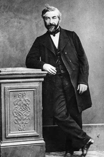 Jean Charles Galissard de Marignac (1817–1894) Swiss chemist who discoverered ytterbium in 1878 and codiscovered gadolinium in 1880.